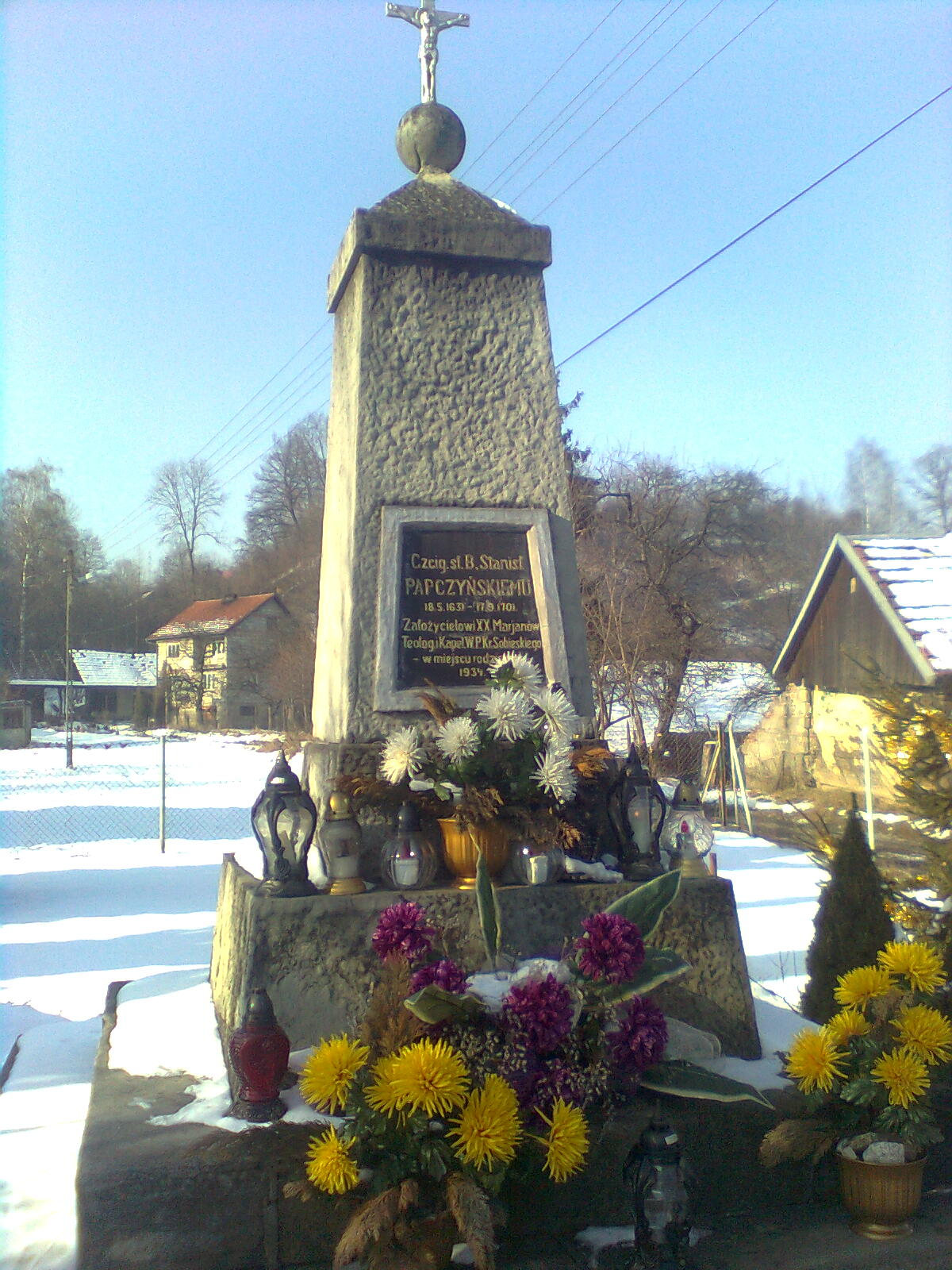 Monument of Stanisław Papczyński in Podegrodzie (Lesser Poland Voivodeship)